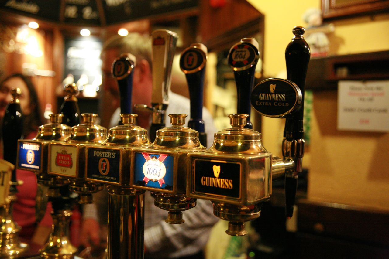 Beer taps in a pub in London, UK.